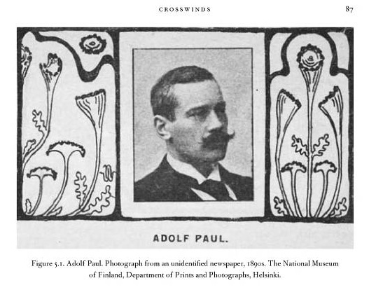 A picture of Adolf Paul from a book about Finnish composer Jean Sibelius.